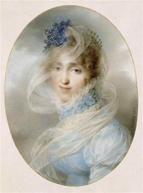 Queen Hortense (1783-1837)